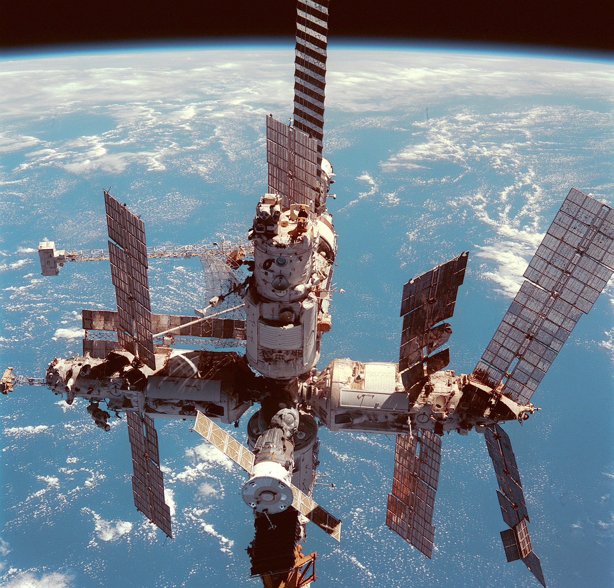 Russia's Mir space station is backdropped over the blue and white planet Earth in this medium range photograph recorded during the final fly-around of the members of the fleet of NASA's shuttles. Seven crew members, including Andrew S.W. Thomas, were aboard the Space Shuttle Discovery when the photo was taken; and two of his former cosmonaut crewmates remained aboard Mir. Thomas ended up spending 141 days in space on this journey, including time aboard Space Shuttles Endeavour and Discovery, which transported him to and from Mir.